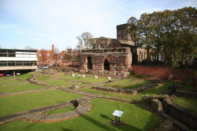 Roman baths The site of the baths for the Roman city of Ratae Corieltauvorum